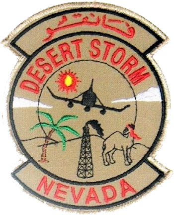 192d Tactical Reconnaissance Squadron - Desert Storm Emblem